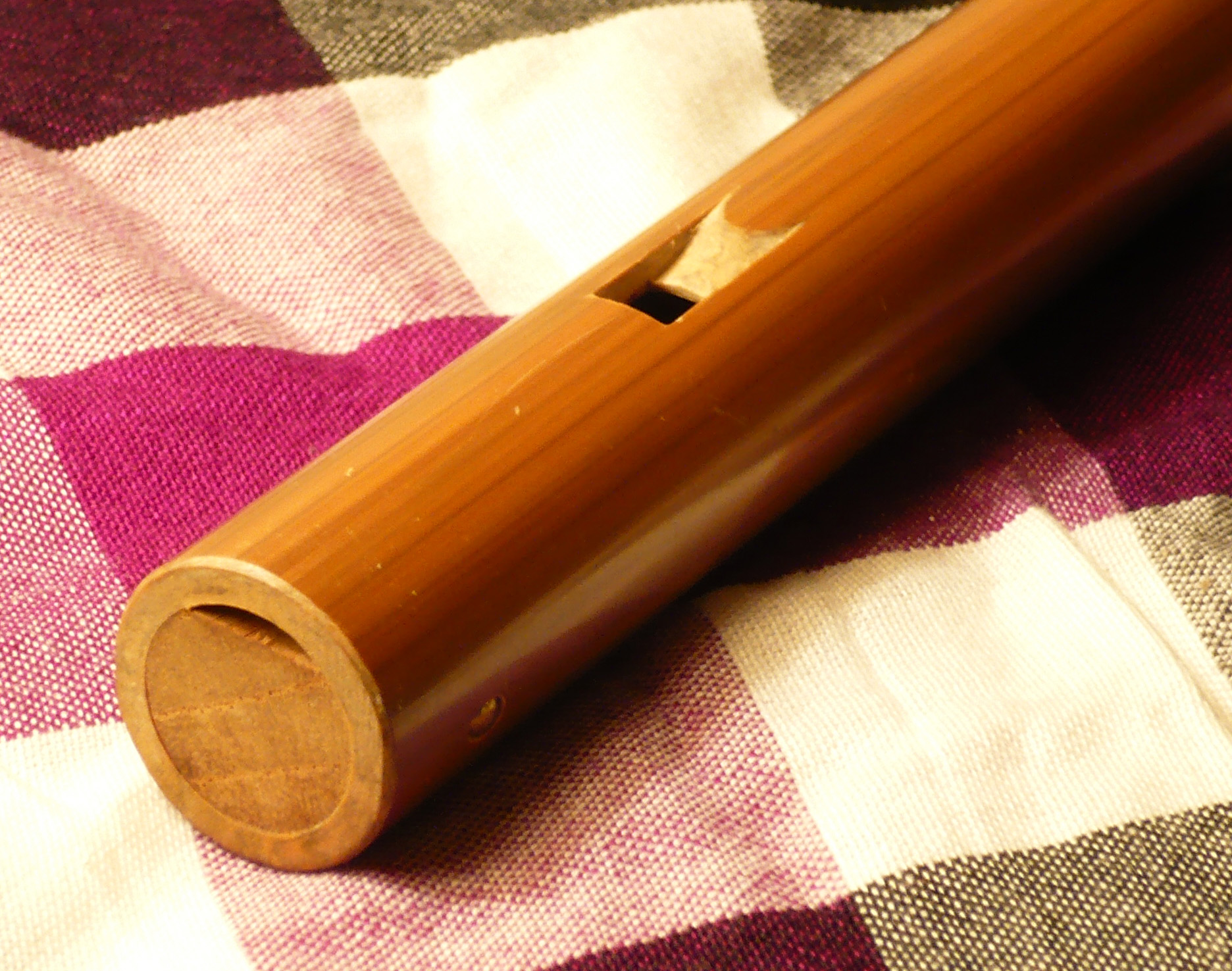 Closeup of the mouthpiece and duct of a khlui (traditional Thai vertical bamboo flute). Photo taken in Kent, Ohio with a Panasonic Lumix digital camera (model DMC-LS75). Khlui received as a gift in summer 1998 from Bansomdejchaopraya Rajabhat University, Bangkok, Thailand.